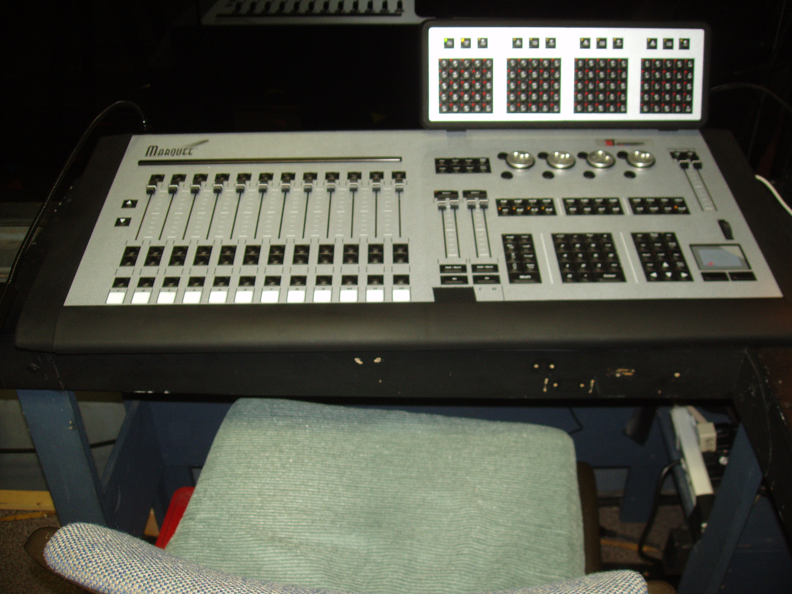 Picture of Entertainment Technology